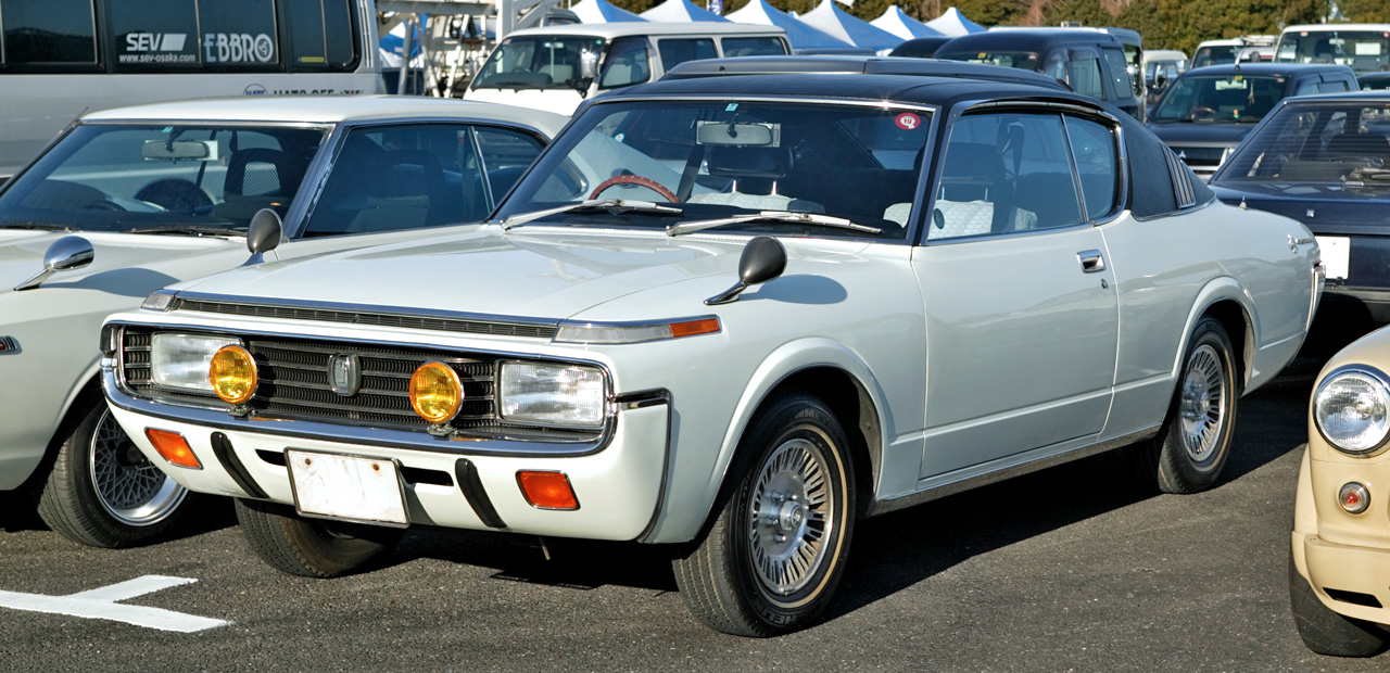 Toyota Crown Haerdtop 2000 SL ( MS70 )